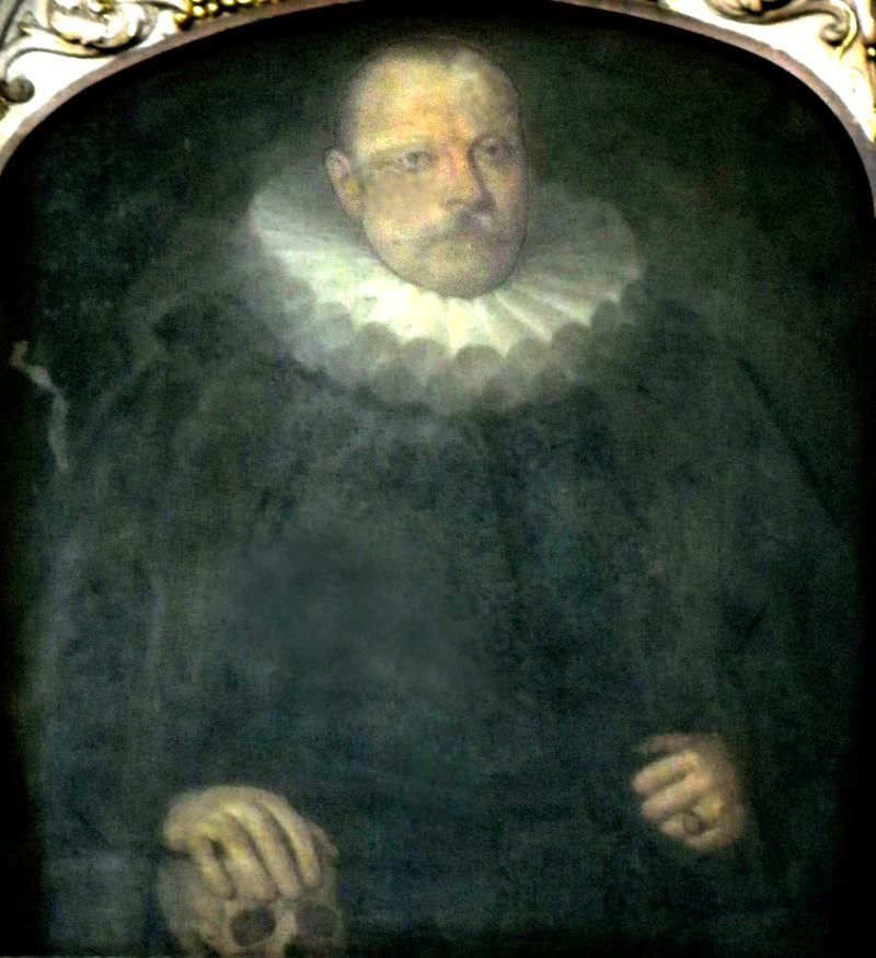 Daniel Zierenberg (1547-1602), mayor of Gdańsk, on his epitaph in St. Mary's Church (painting Abraham van den Blocke, ca. 1616)